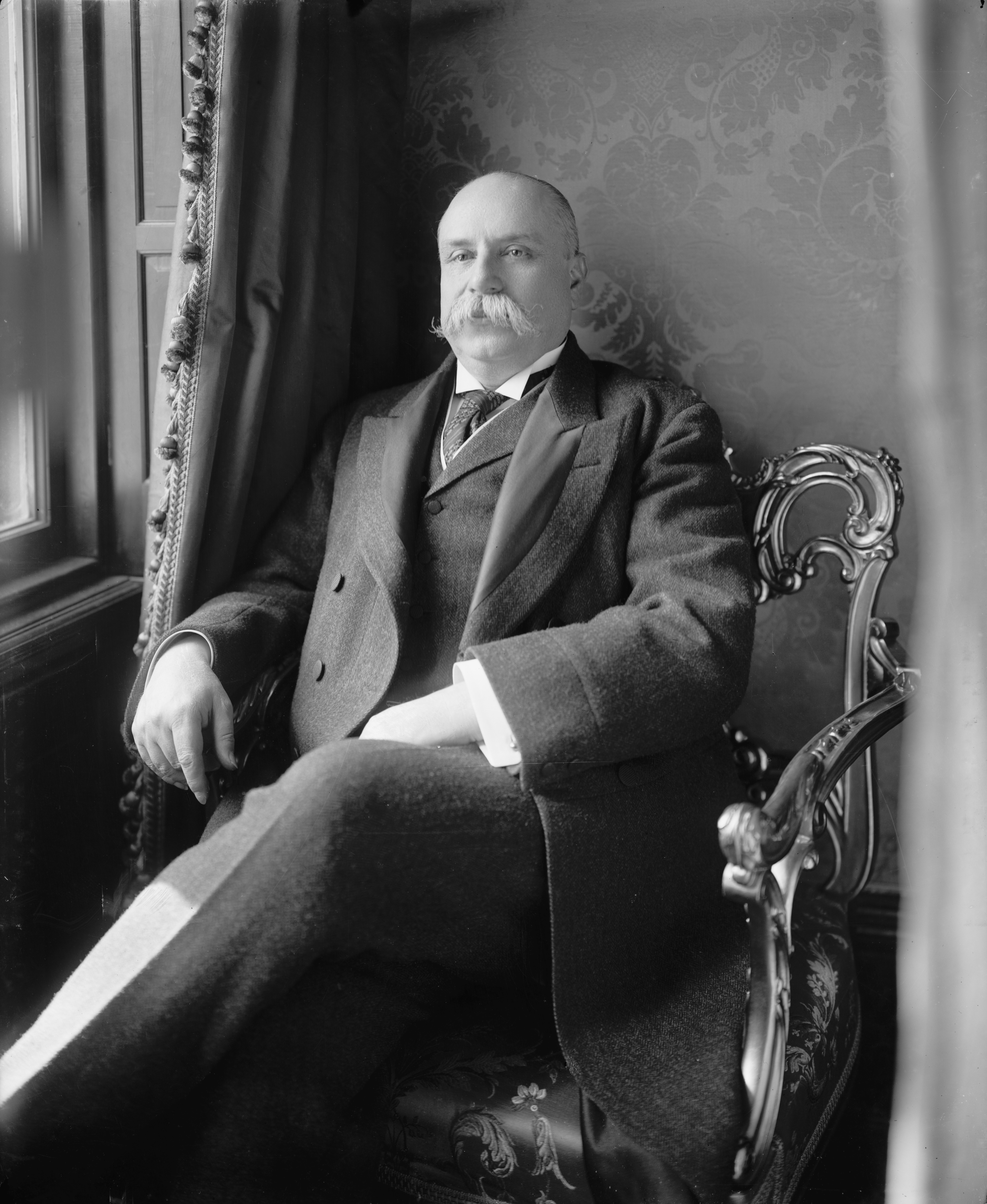 Portrait of Enrique Creel, Mexican Secretary of Foreign Affairs (1910 – 1911) and Ambassador of Mexico to the United States (1907 – 1908).